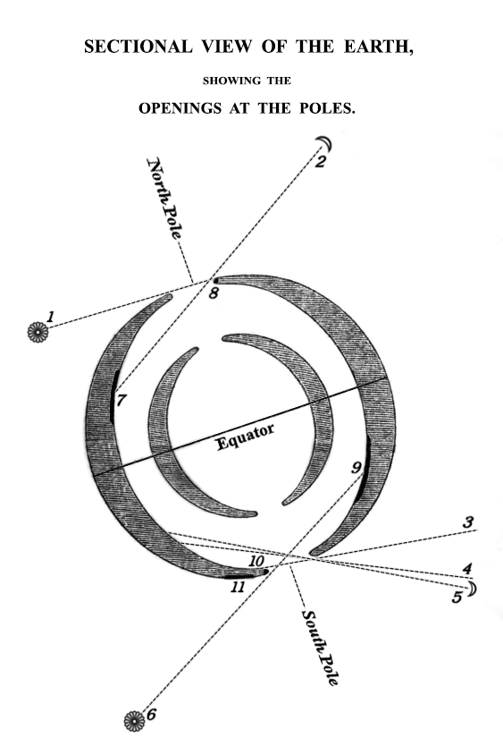 Redraw/retouch of the frontispiece to Symzonia (based on the image at Google Books)